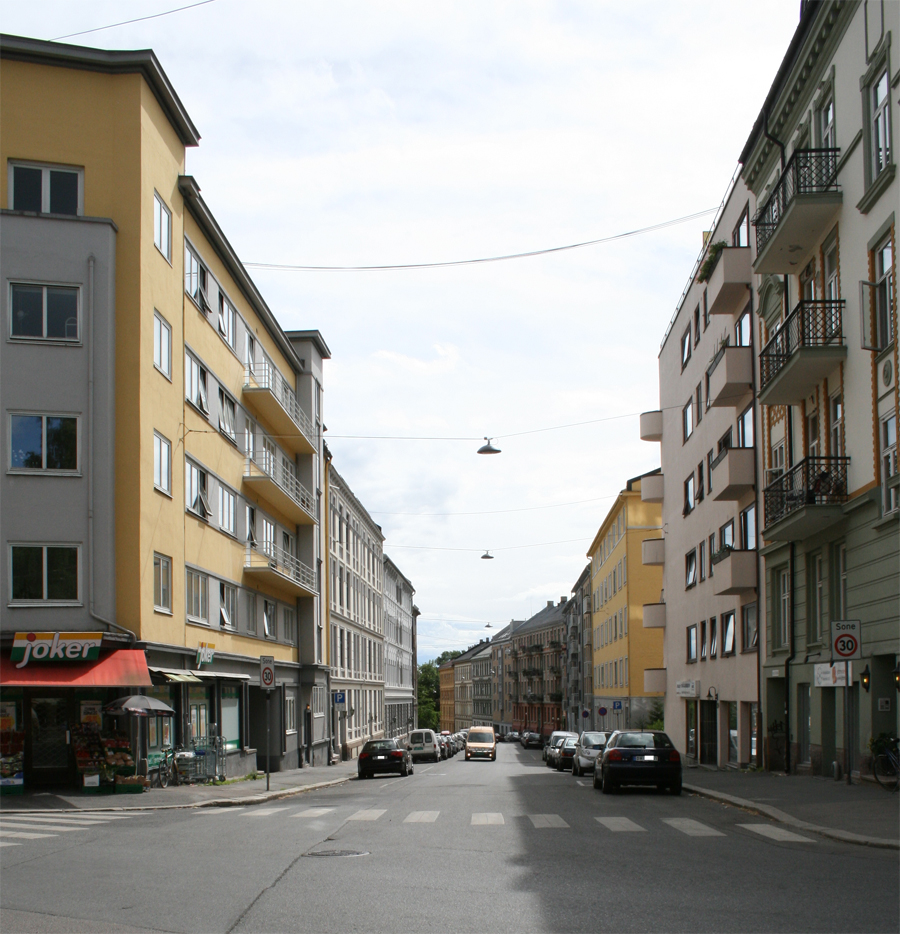 The street Stensgata in Oslo